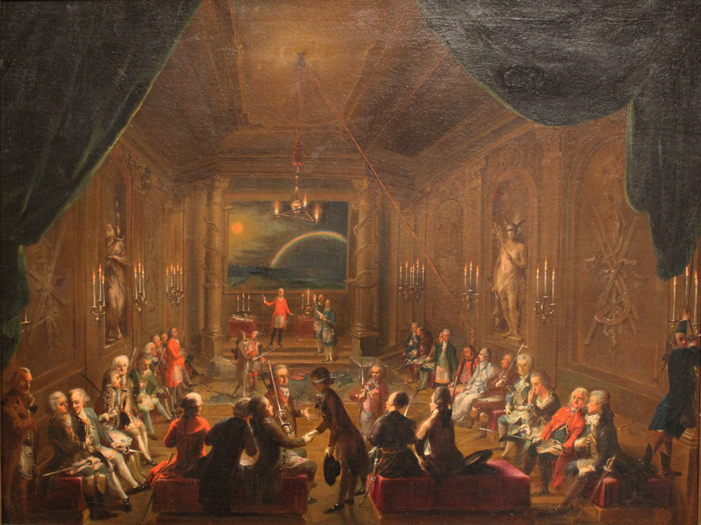 The inside of what is thought to be the lodge New Crowned Hope (Zur Neugekrönten Hoffnung) in Vienna. It is believed that Wolfgang Amadeus Mozart is depicted at the extreme right, sitting next to his close friend Emanuel Schikaneder.